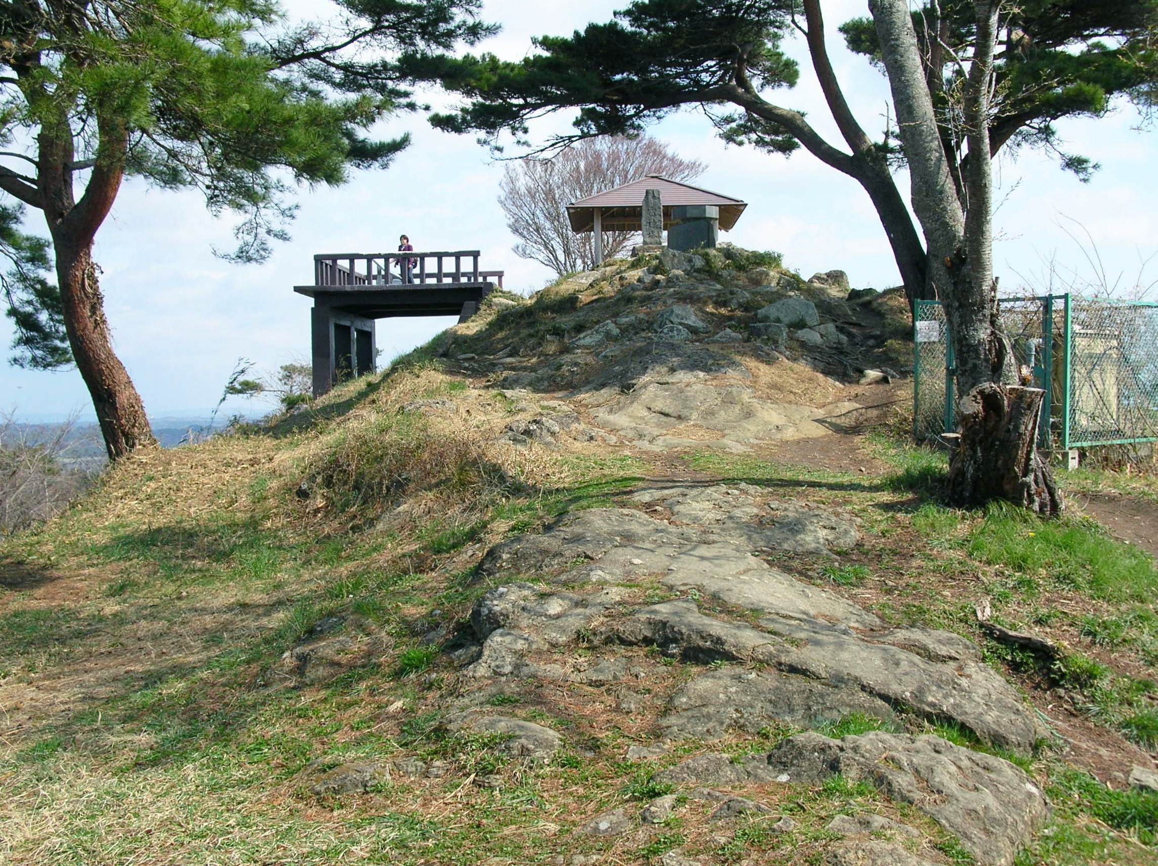 Ootakamori,Miyato,Higasimatsusima-city,Miyagi-prefecture,Japan